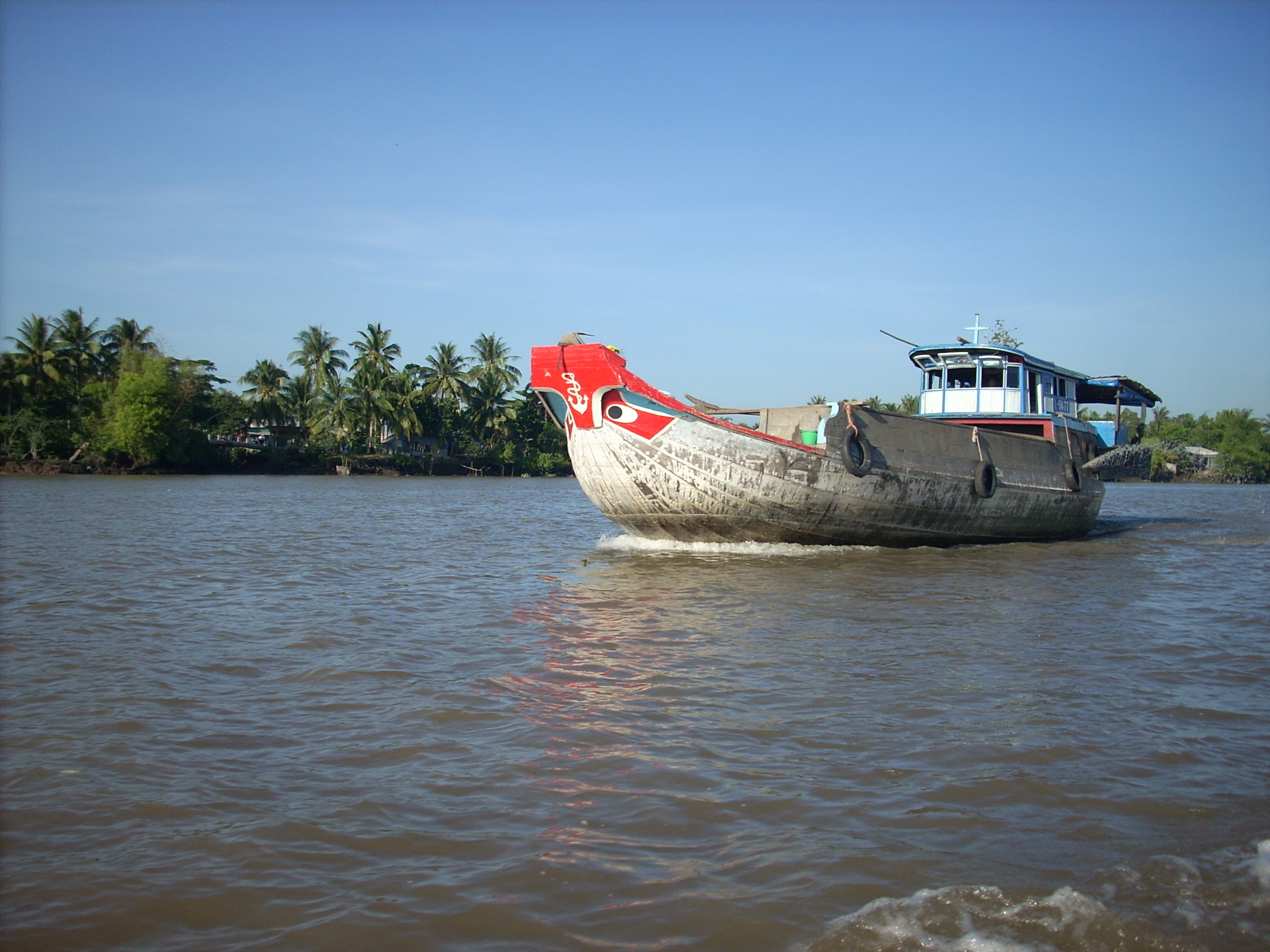 Boat on the Can Tho River